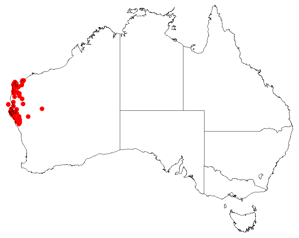 Hakea stenophylla Occurrence data downloaded from Australasian Virtual Herbarium on 22 November 2018 using